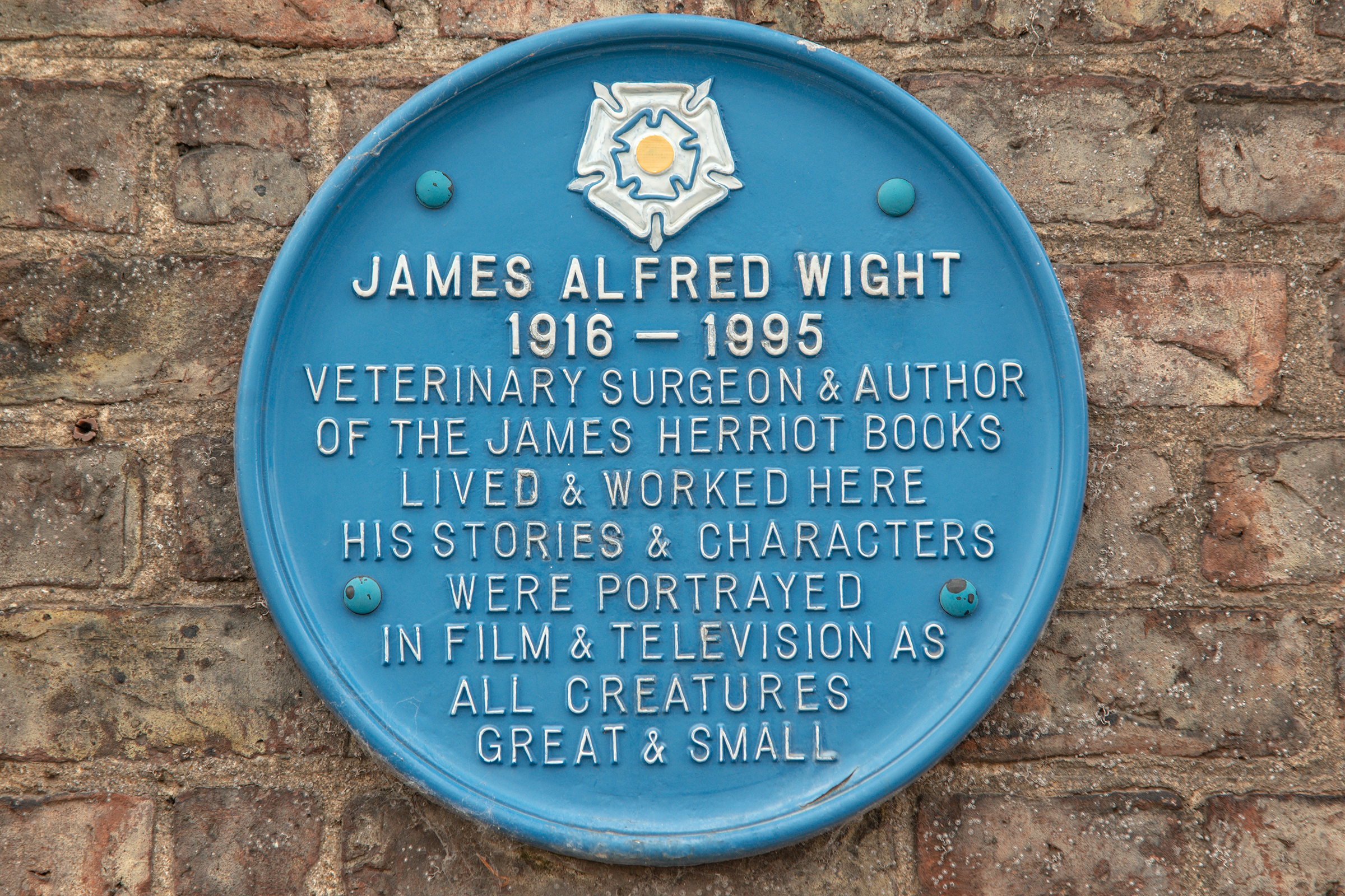 A sign at Wight's original practice in Thirsk, at 23 Kirkgate. (James Herriot)